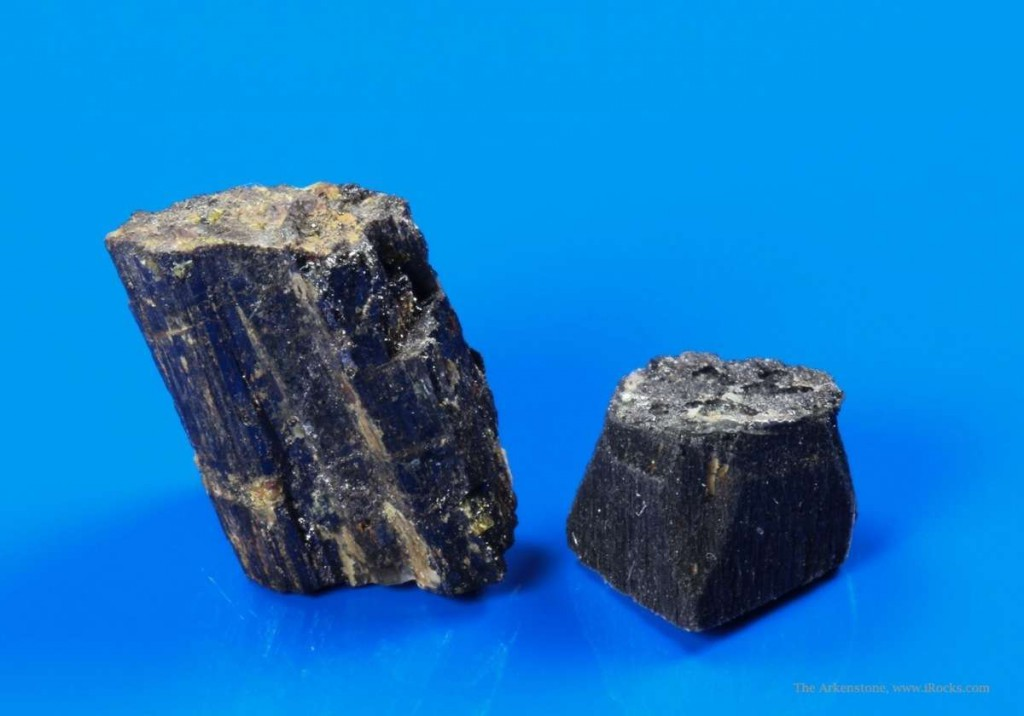 Baotite Locality: Sheep Creek, Mineral Point District, Ravalli County, Montana, USA (Locality on ) Size: 1.5 cm x 1.0 cm x 0.75 cm Two very nice, vitreous, vertically striated, blackish brown crystal fragments; one 7mm and the other 11mm in maximum dimension. This is an excellent example of this rare barium-titanium-niobium cyclosilicate. The label, from A. L. McGuiness, indicates aeschynite (?) in association. Ex. Rock Currier collection. Tom and Melissa Campbell photos.